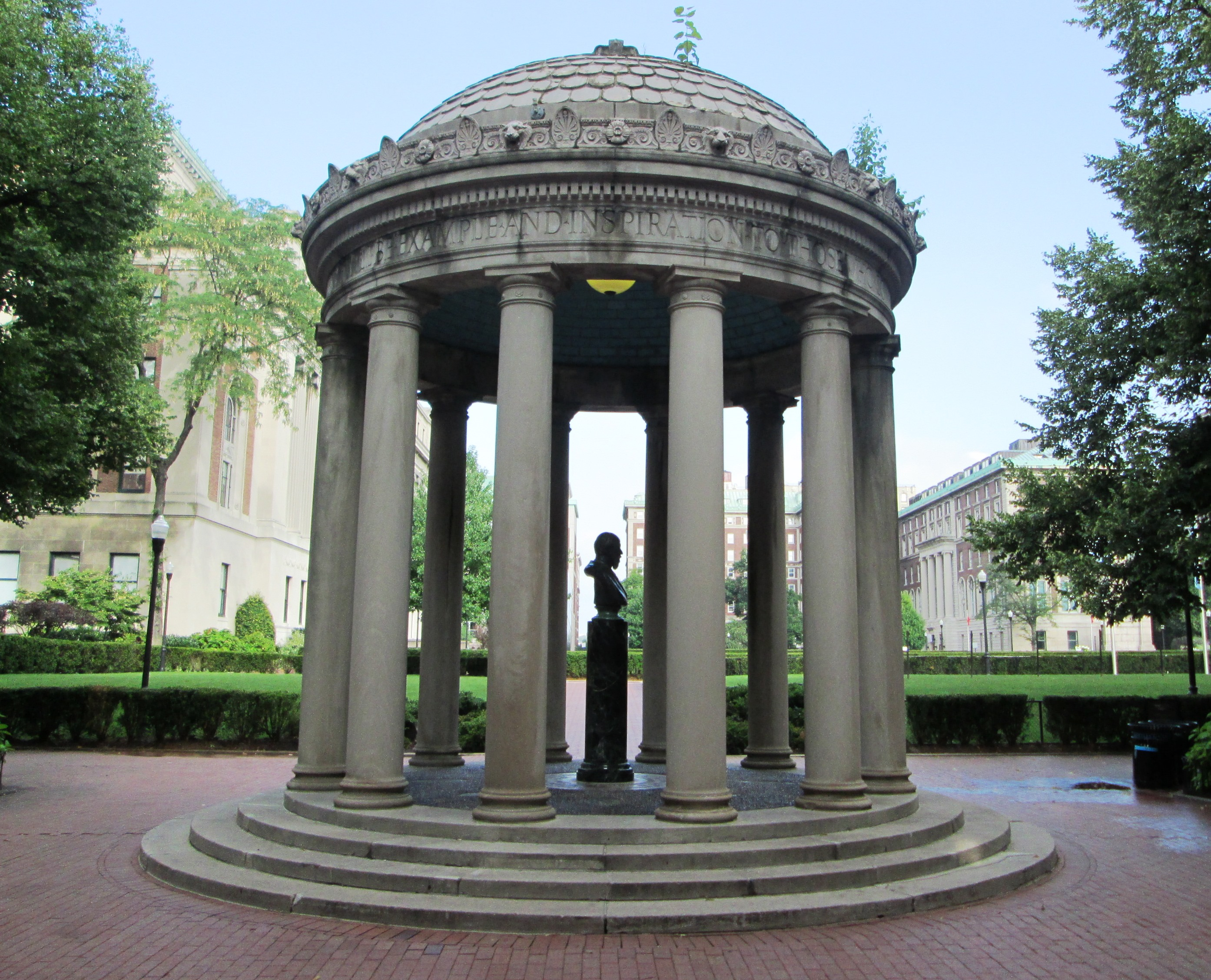 The Van Amringe Memorial, on the Morningside Heights campus of Columbia University in the Van Amringe Quad east of the Butler Library, was built in 1917-18 in the neoclassical style, and honors John Howard Van Amringe, the first dean of Columbia College, as well as a professor of mathematics. The Indiana limestone structure has 12 columns and a dome lined with blue tiles. It is 25 feel tall and 23 feet in diameter. (Source: Columbia Alumni News (July 1918))